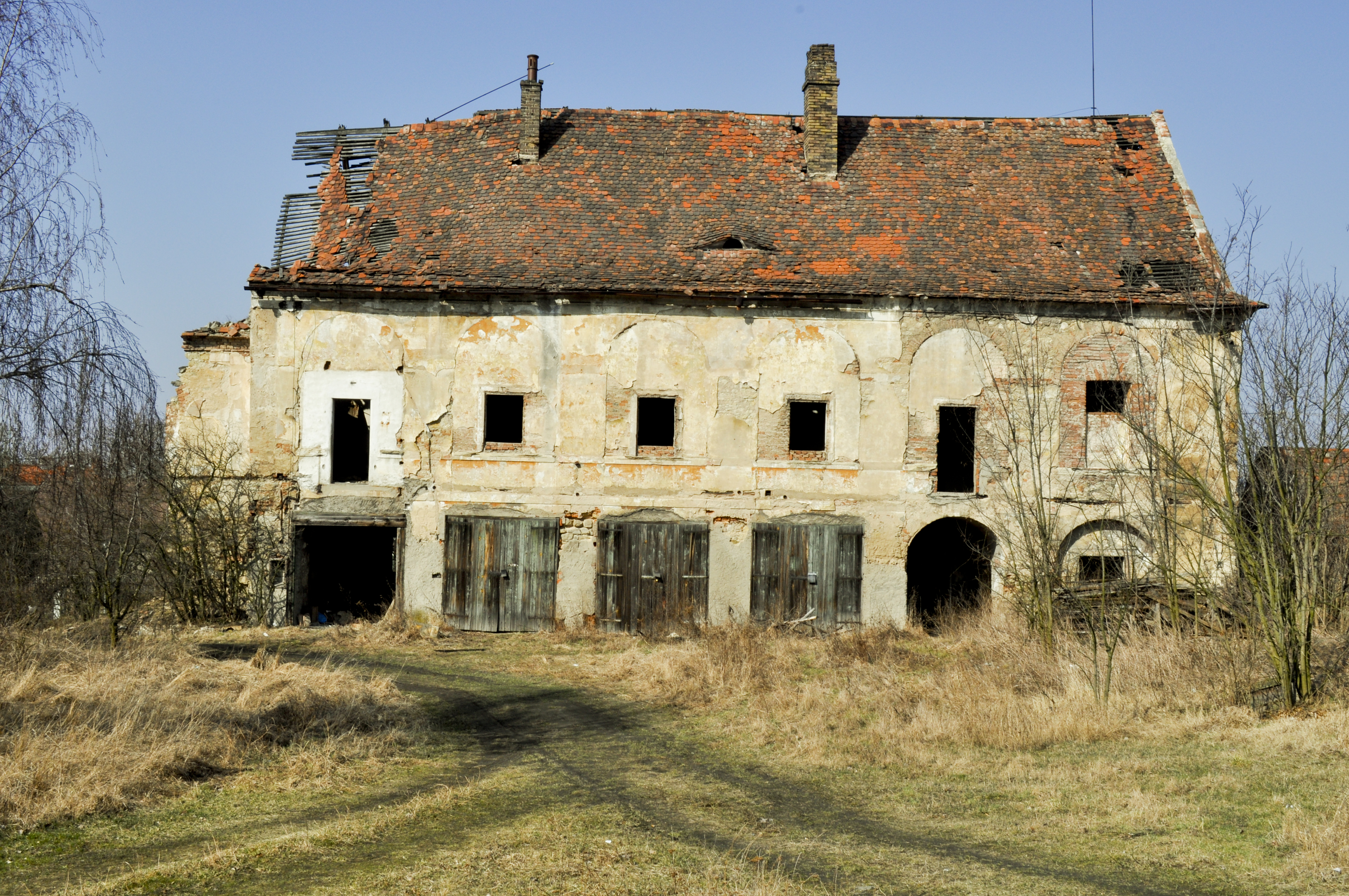 Ruins of the Chateau, Chcebuz, Ústí nad Labem Region